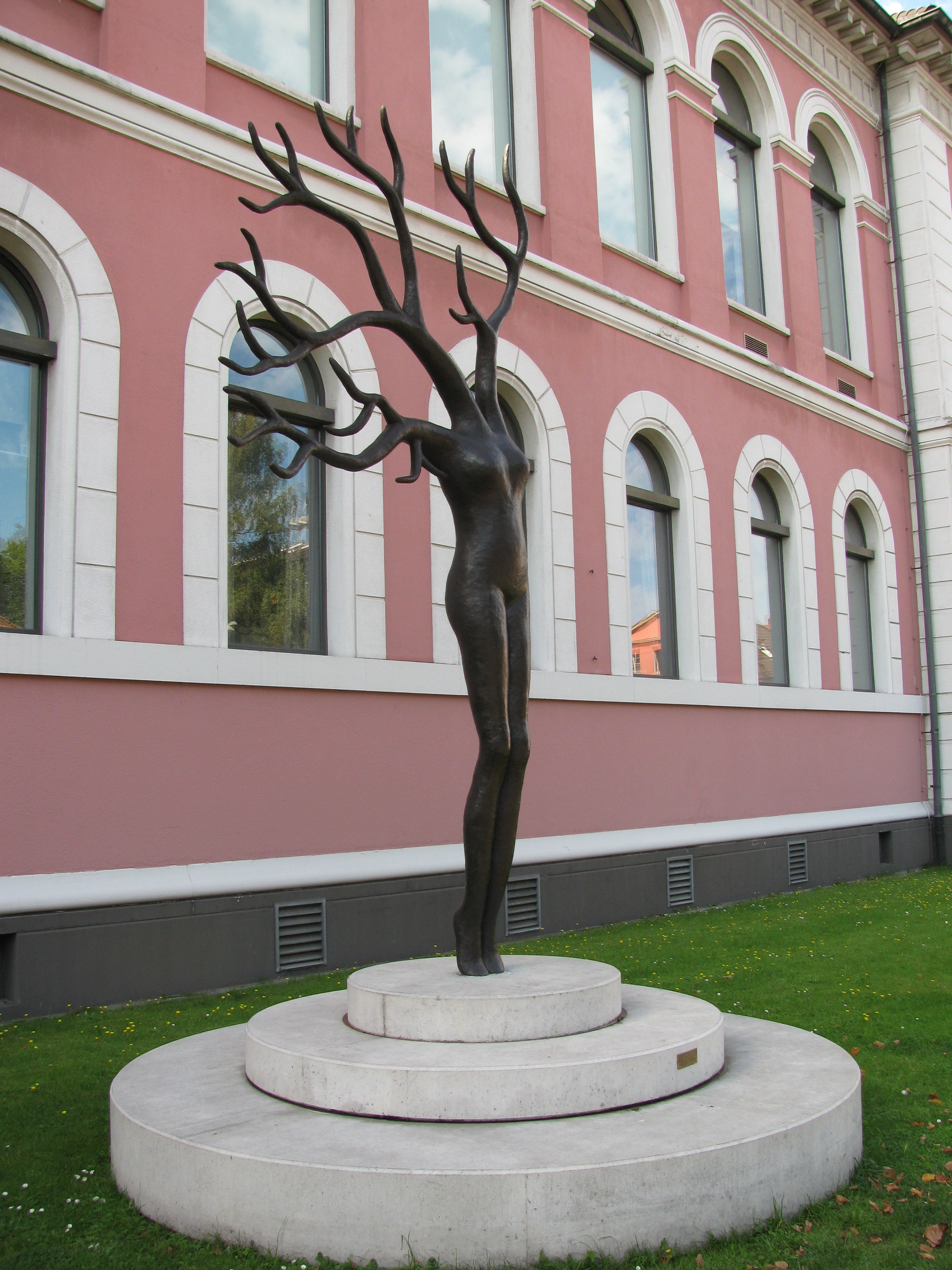 Statue of Daphne's metamorphosis "Daphne im Wind" — by Iris Le Rütte (2011). Bronze statue in Oldenburg, Lower Saxony, Germany.